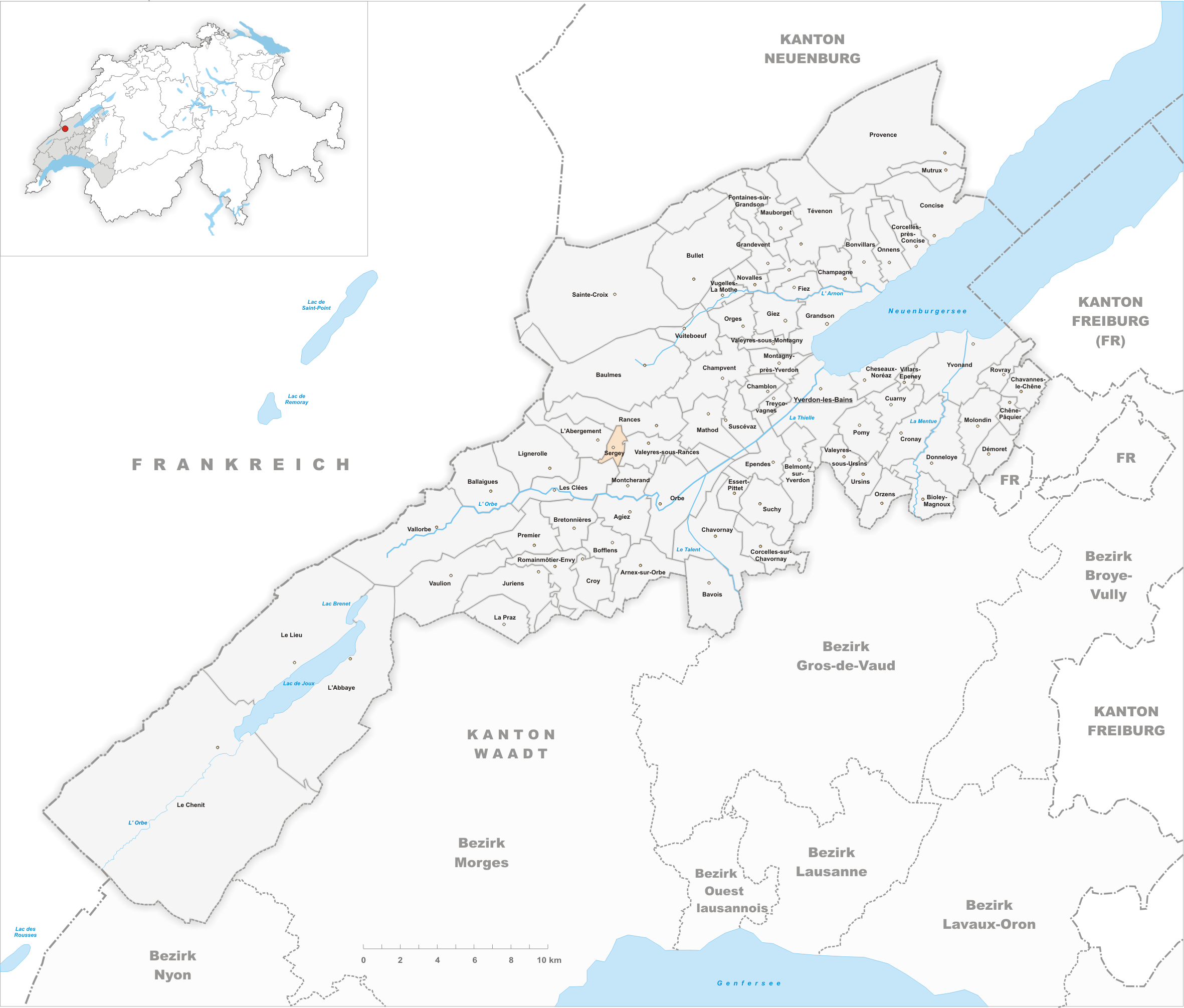 Municipality Sergey